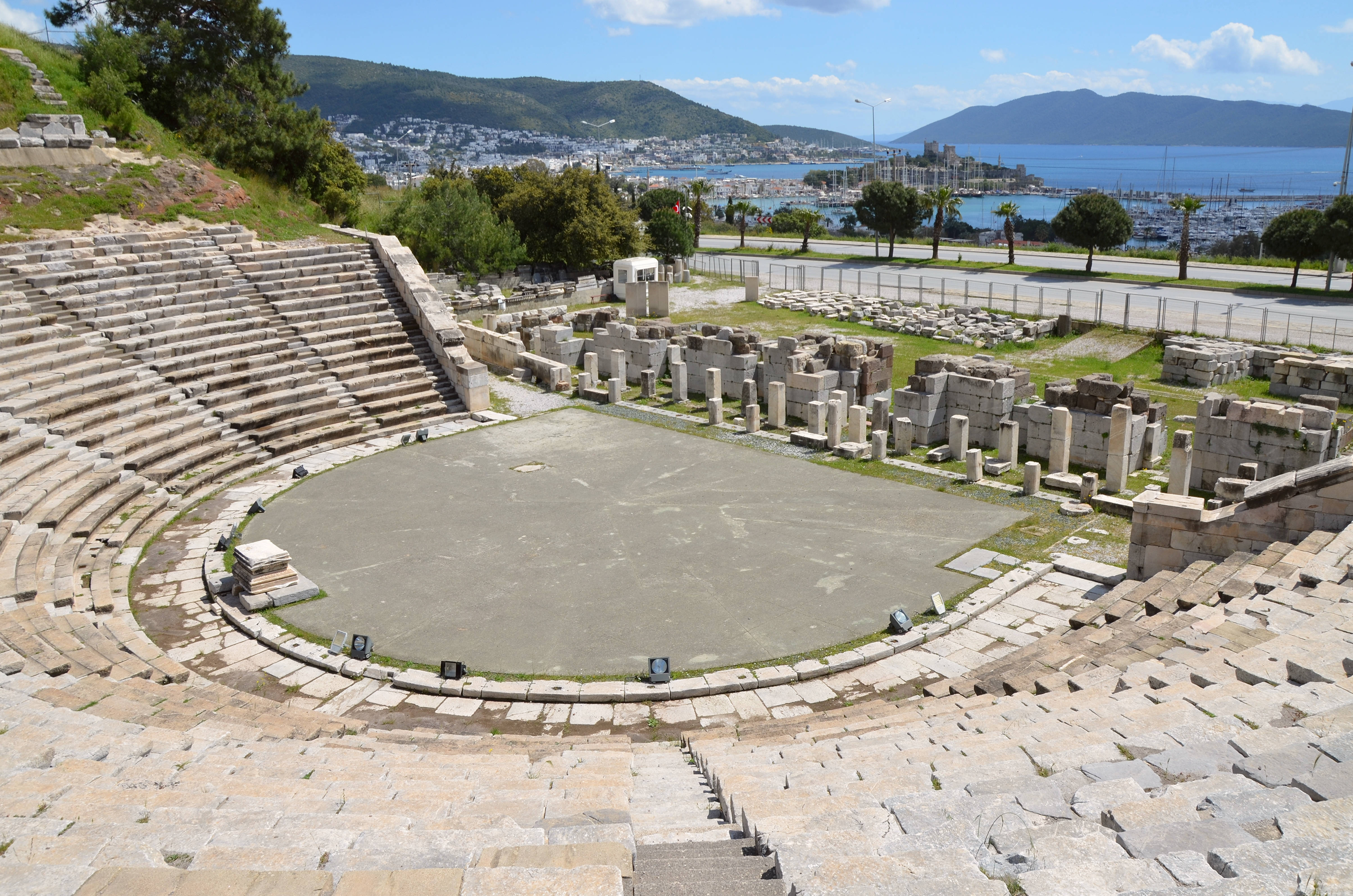 The theatre of ancient Halicarnassus, built in the 4th century BC during the reign of King Mausolos and enlarged in the 2nd century AD, the original capacity of the theatre was 10,000, Bodrum, Turkey